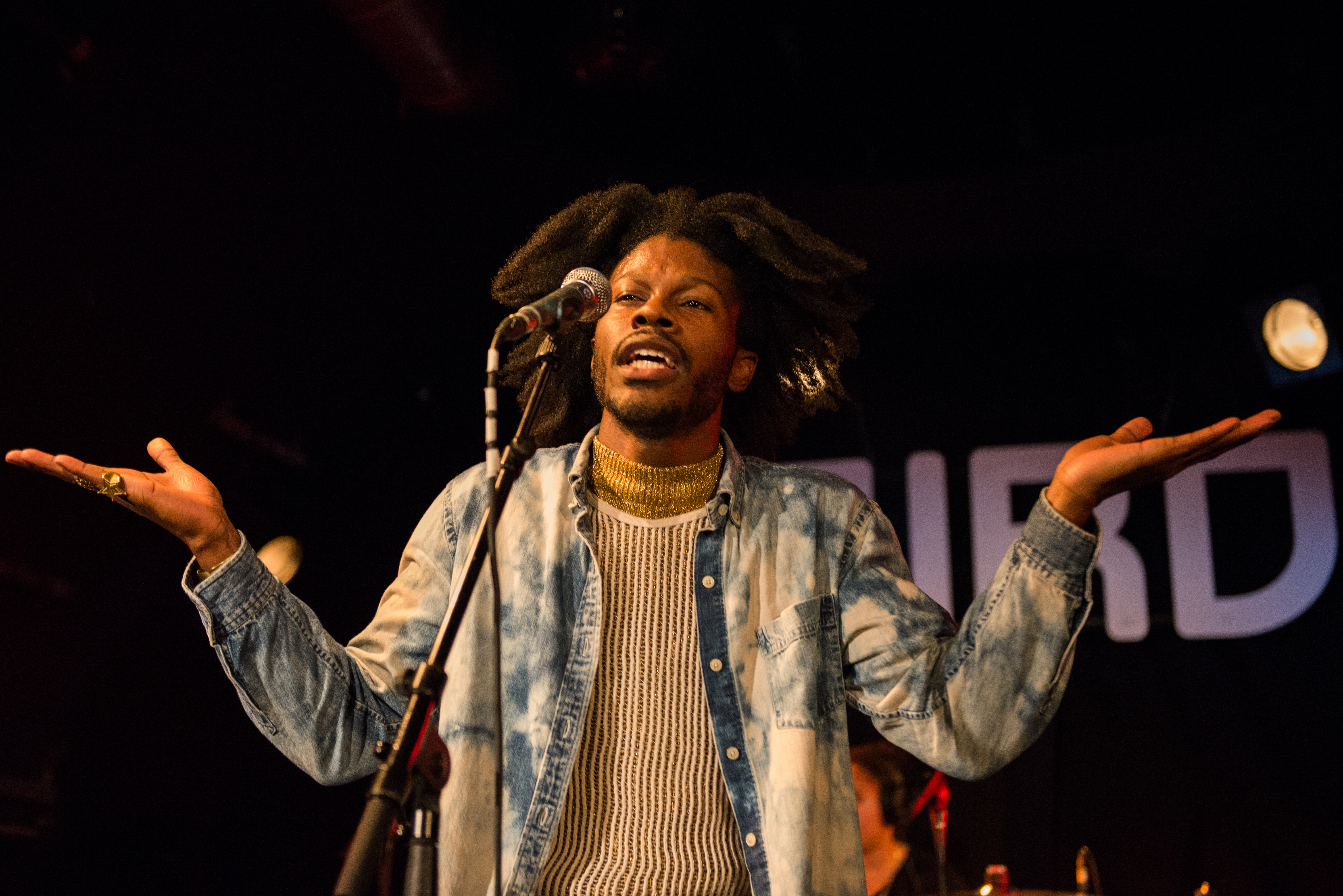 World-soulsinger Jesse Boykins III in BIRD Rotterdam on September 3, 2014.